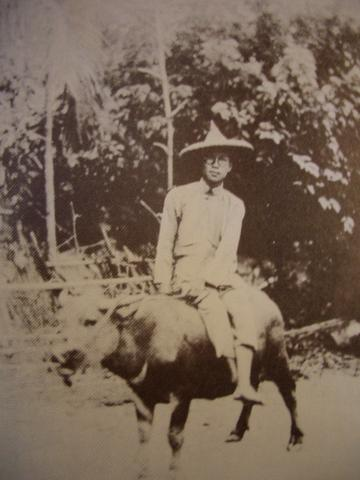 Kan Kiat, a Taiwanese agrarian activist Bân-lâm-gú: Kán Kiat, Tâi-oân ê lông-bîn ūn-tōng-chiá